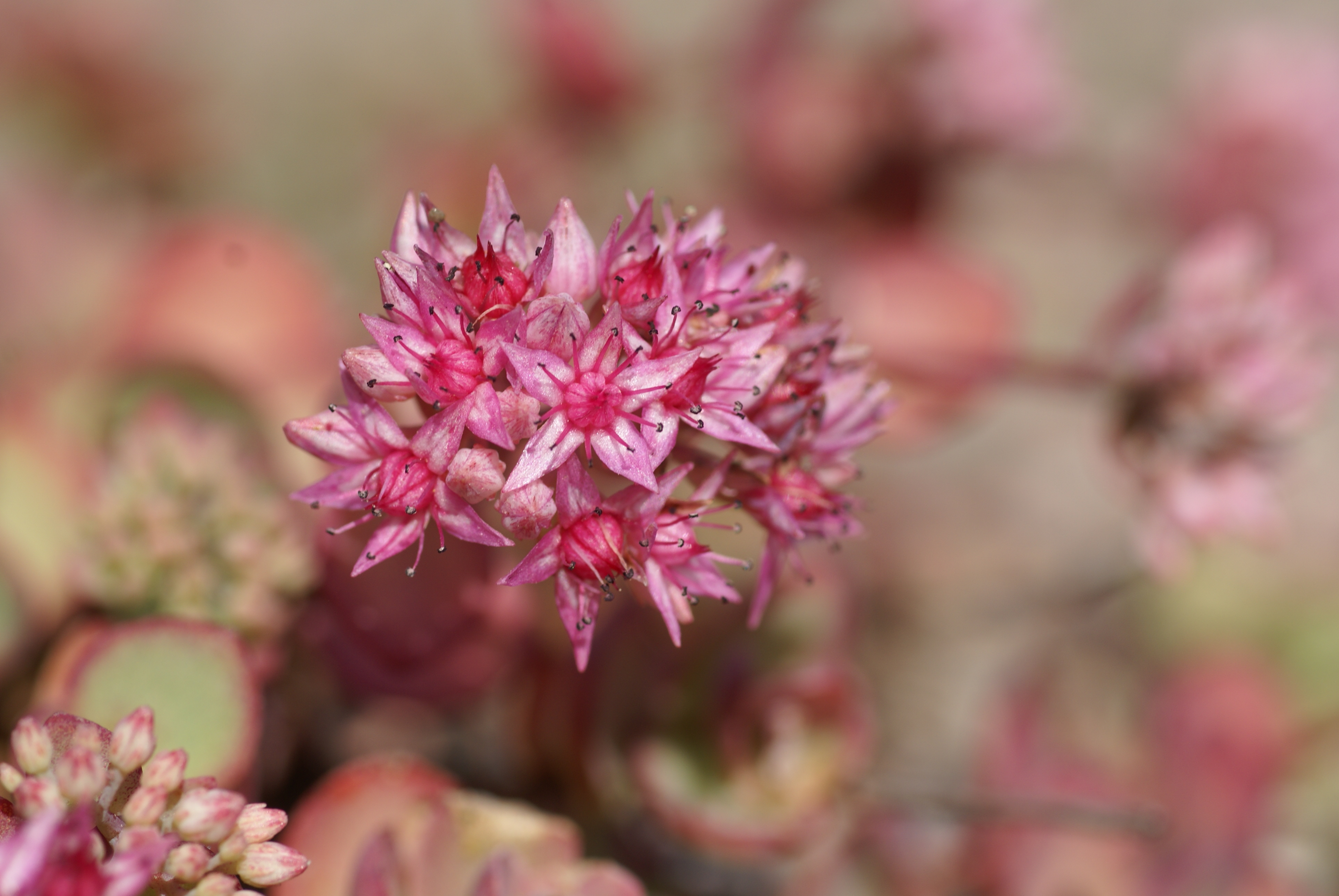 Plant species Hylotelephium ewersii in Botaniska trädgården, Uppsala